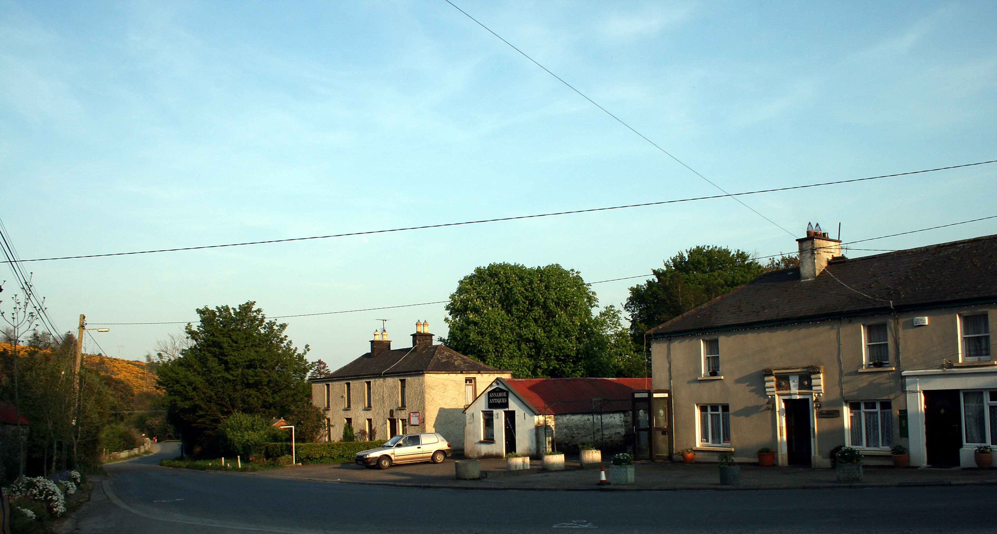 The hamlet of Annamoe in County Wicklow, an hour and a half before sunset.